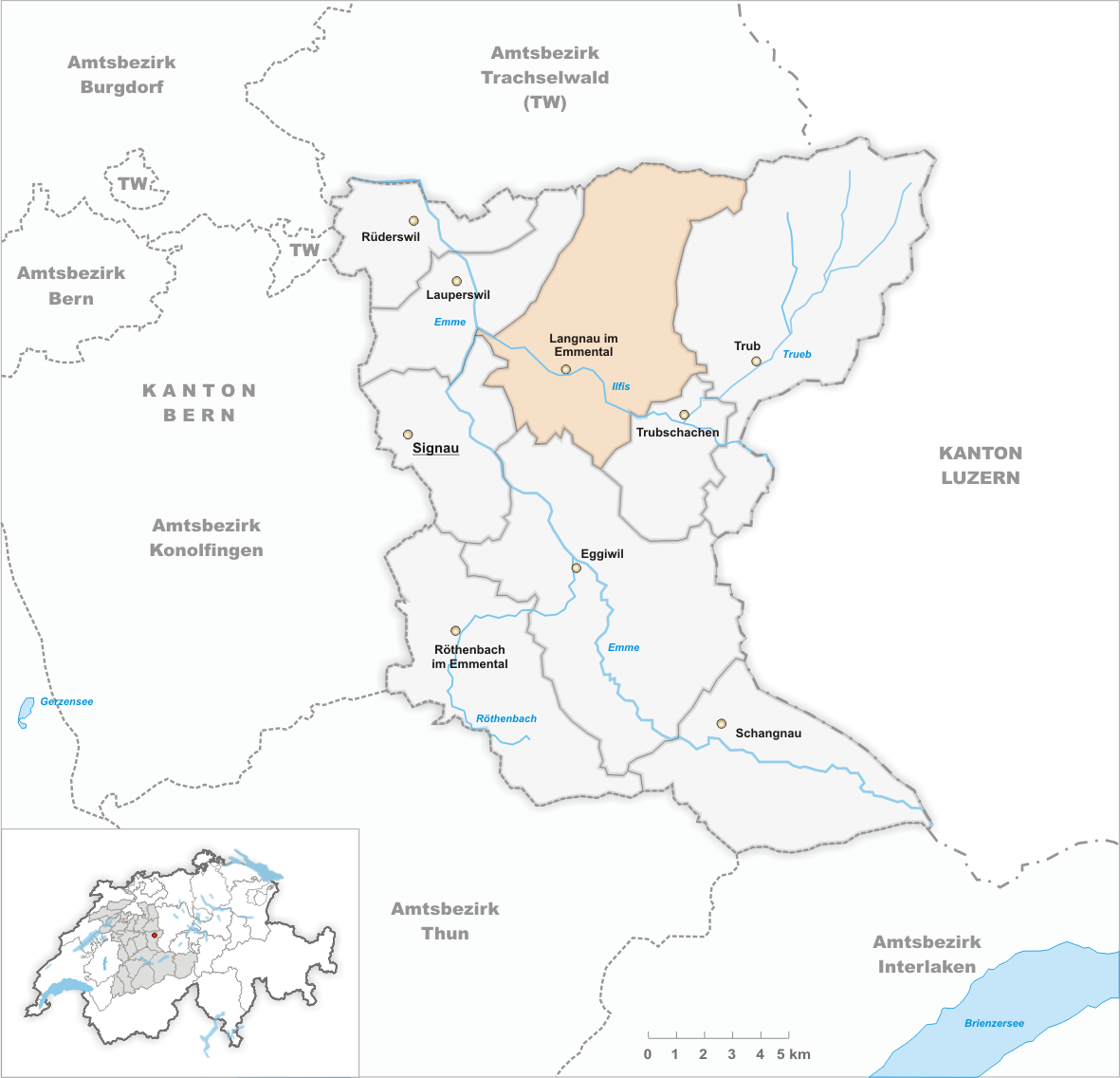 Municipality Langnau im Emmental